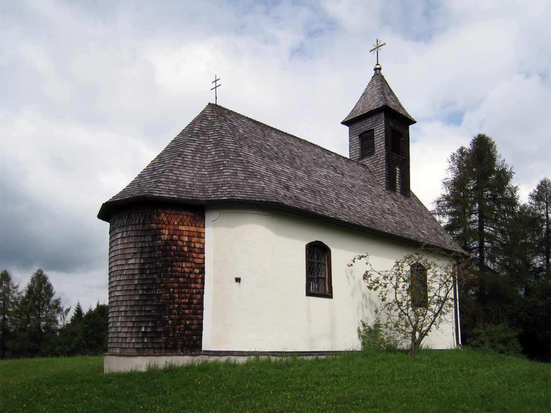 The Gahbergkapelle (“Gahberg chapel”) in Weyregg am Attersee in Upper Austria.